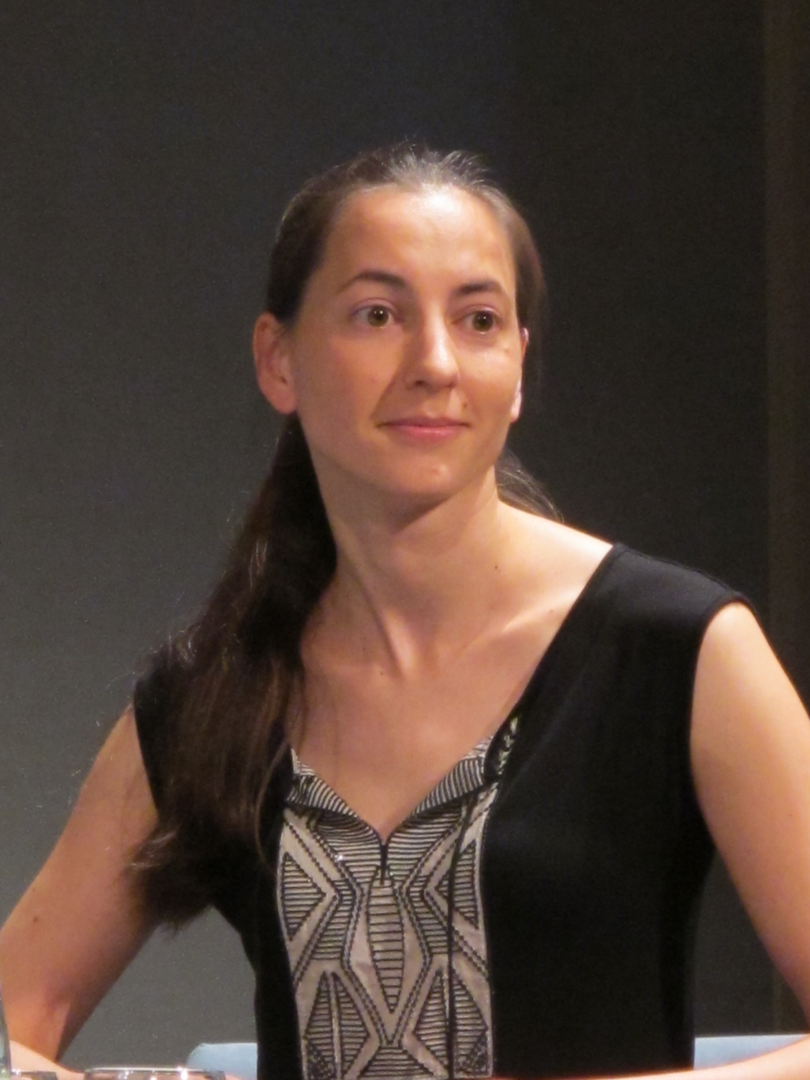 Carola Gruber at the presentation of the Bavarian literary grant 2016